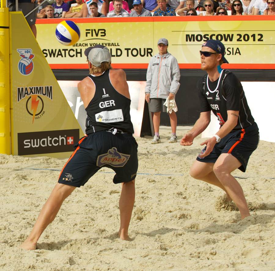 Grand Slam Moscow 2012